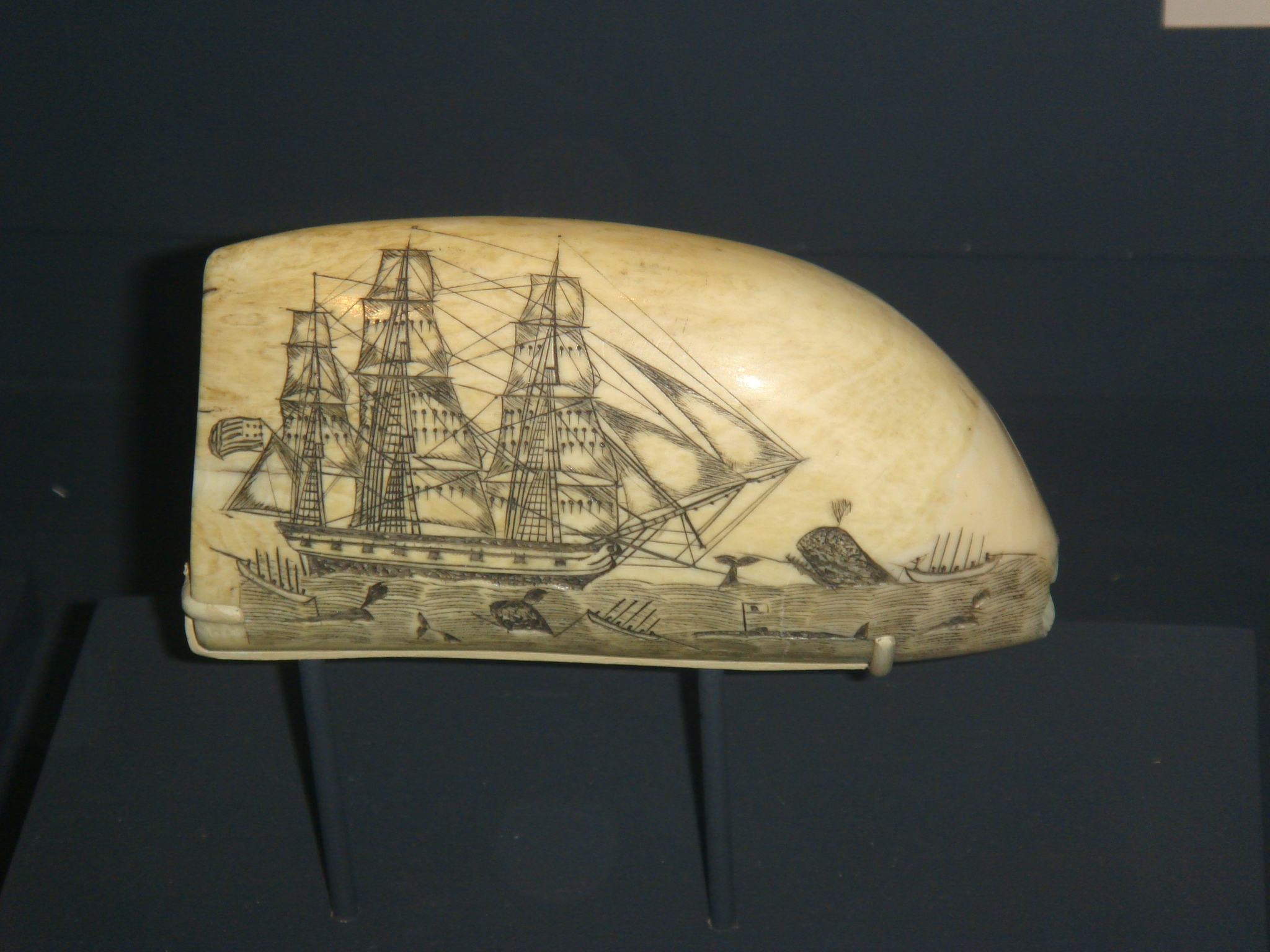 This dramatic ocean whaling scene was carved by Edward Burdett. Born in 1805 on Nantucket, he went on his first whaling voyage at the age of 17. Burdett developed a unique, intaglio style with deep, gouged out areas and dramatic, bold, dark lines. Burdett was a deck officer when he died a tragic death at the age of 27. A harpoon line 'running out' from the deck caught around his feet and dragged him overboard to drown in the ocean.